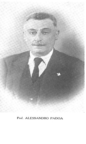 Alessandro Padoa (1868-1938)